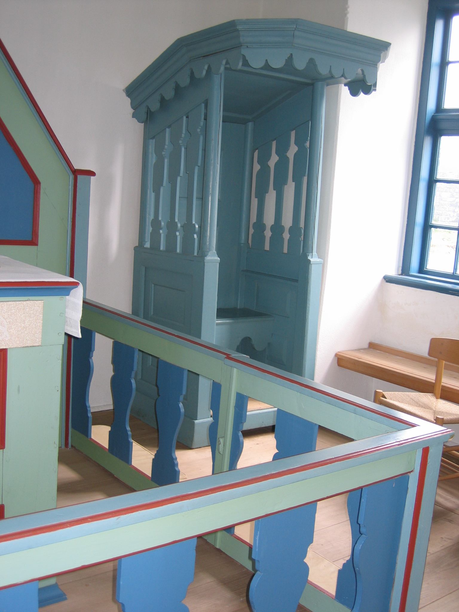 Inside the church in island Viðey, Reykjavik, Iceland. Photo taken by Salvör